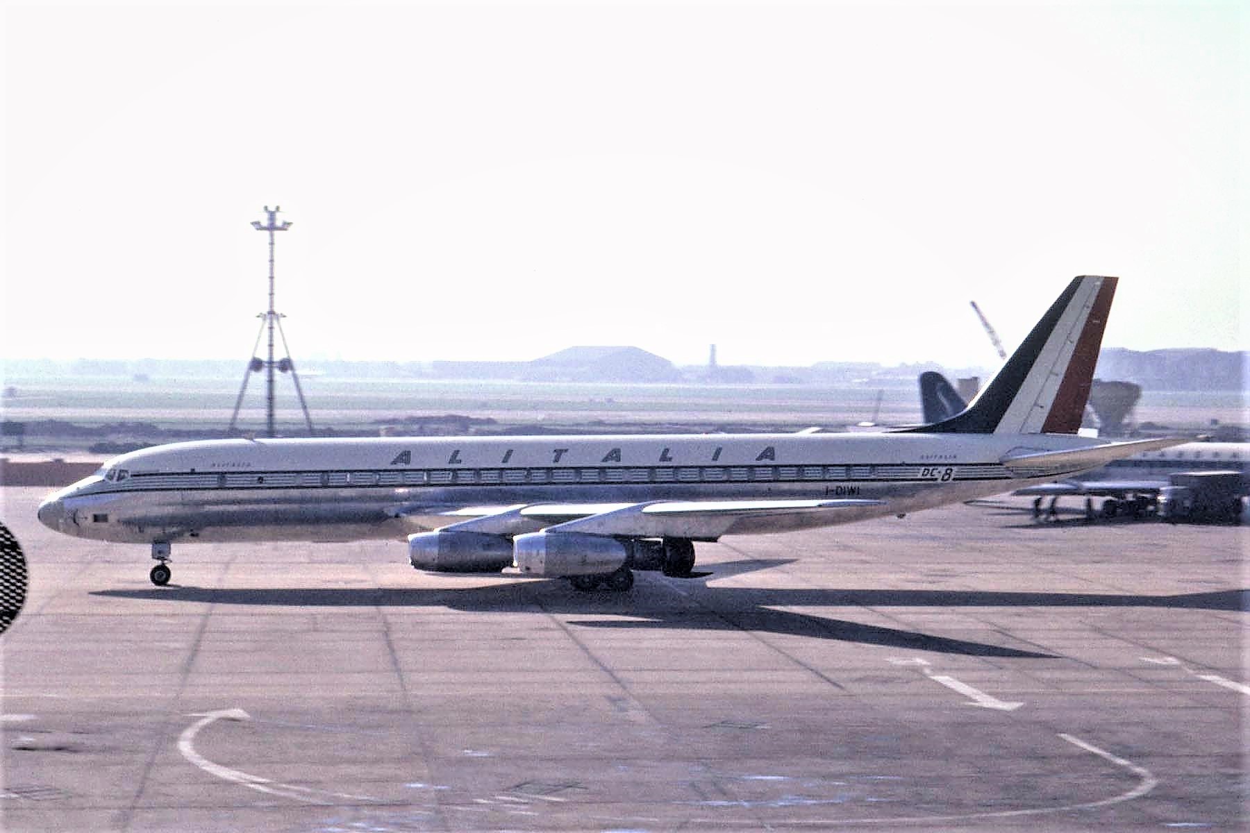 Douglas DC-8-42 of Alitalia registration I-DIWI at London Heathrow Airport.